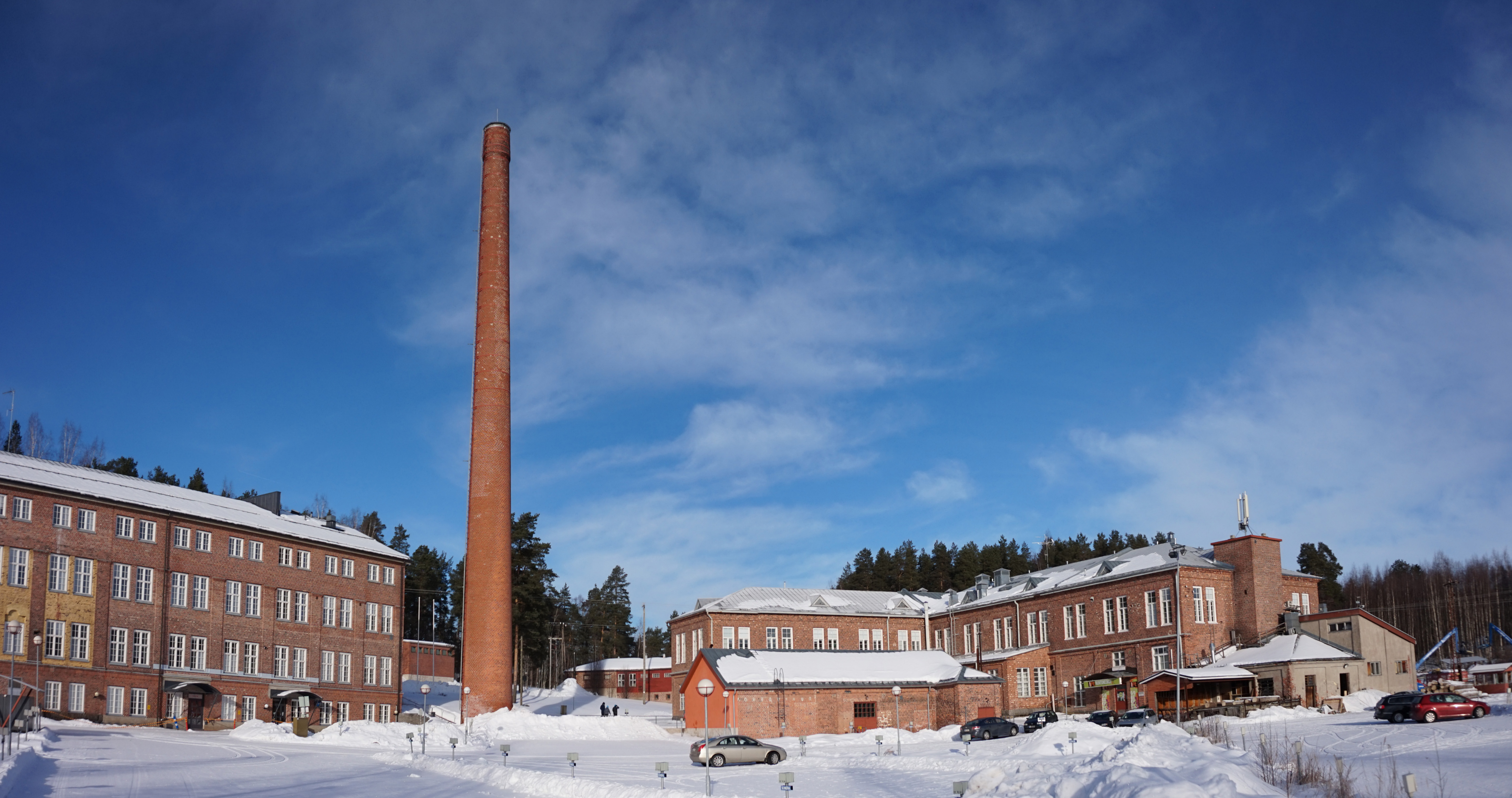 Old factory building in Varassaari island, Jyväskylä